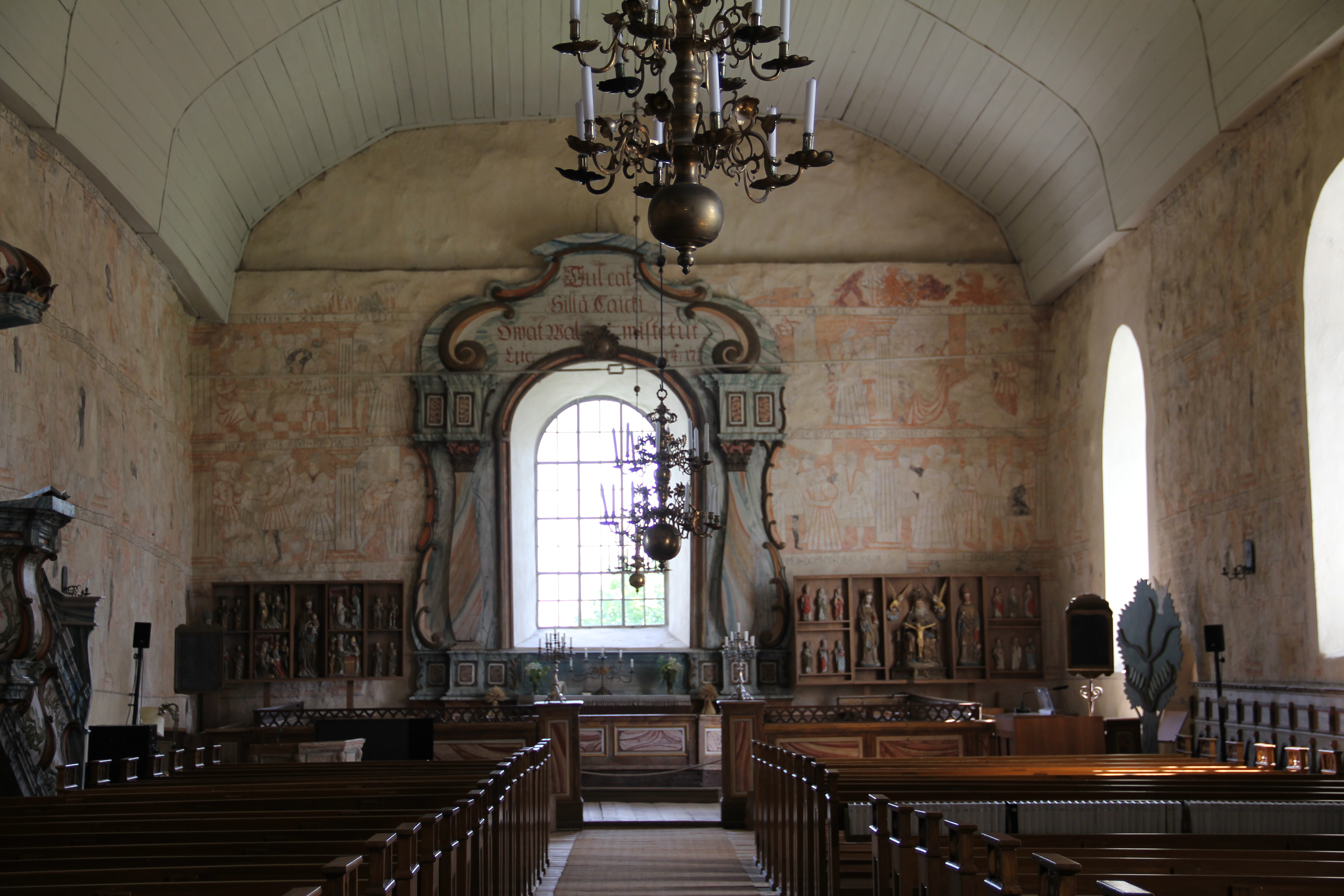 Isokyrö old church, Isokyrö, Finland. – Interior, altar and church paintings.